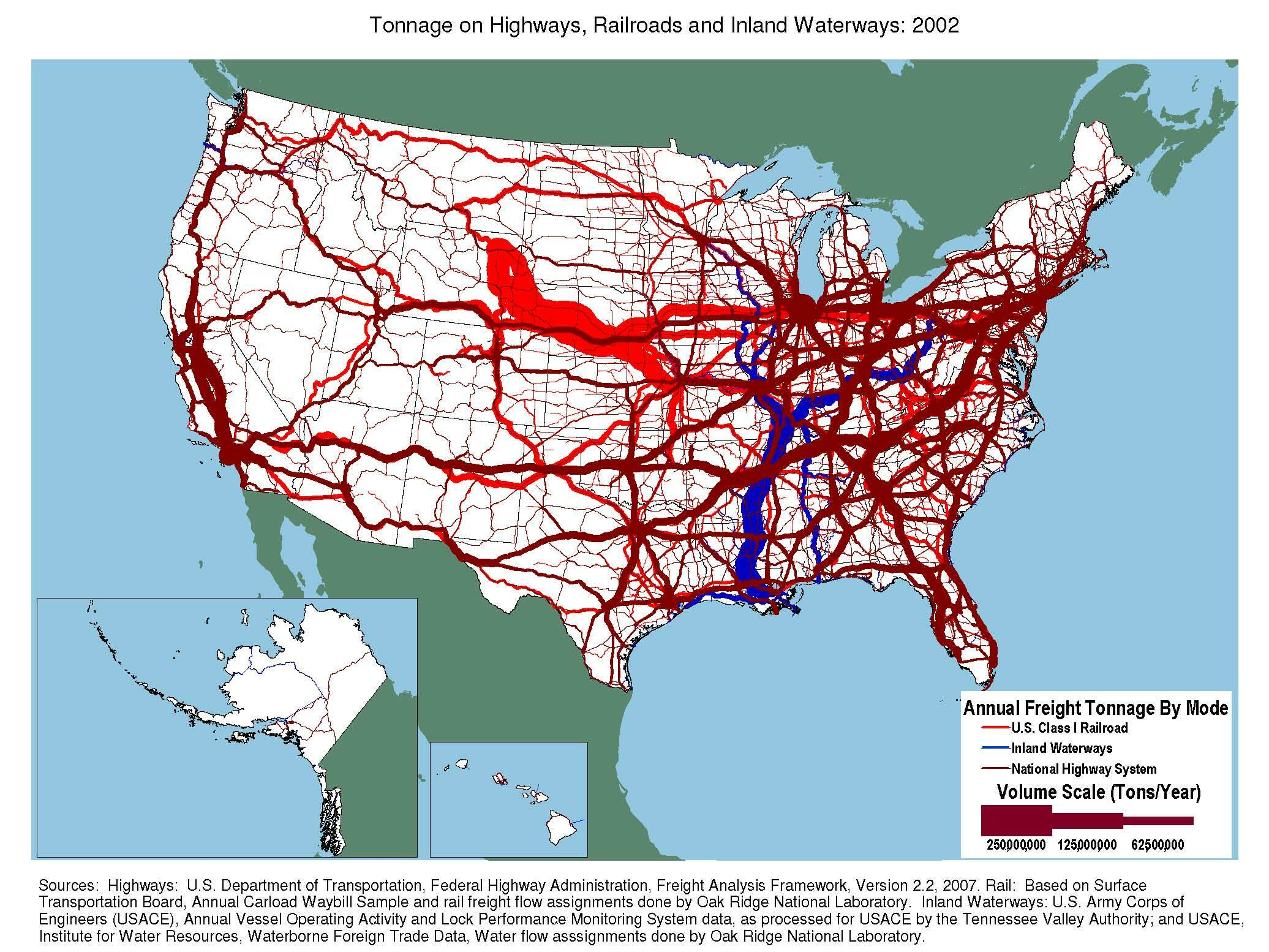 Tonnage_on_highways,_railroads,_and_inland_waterways